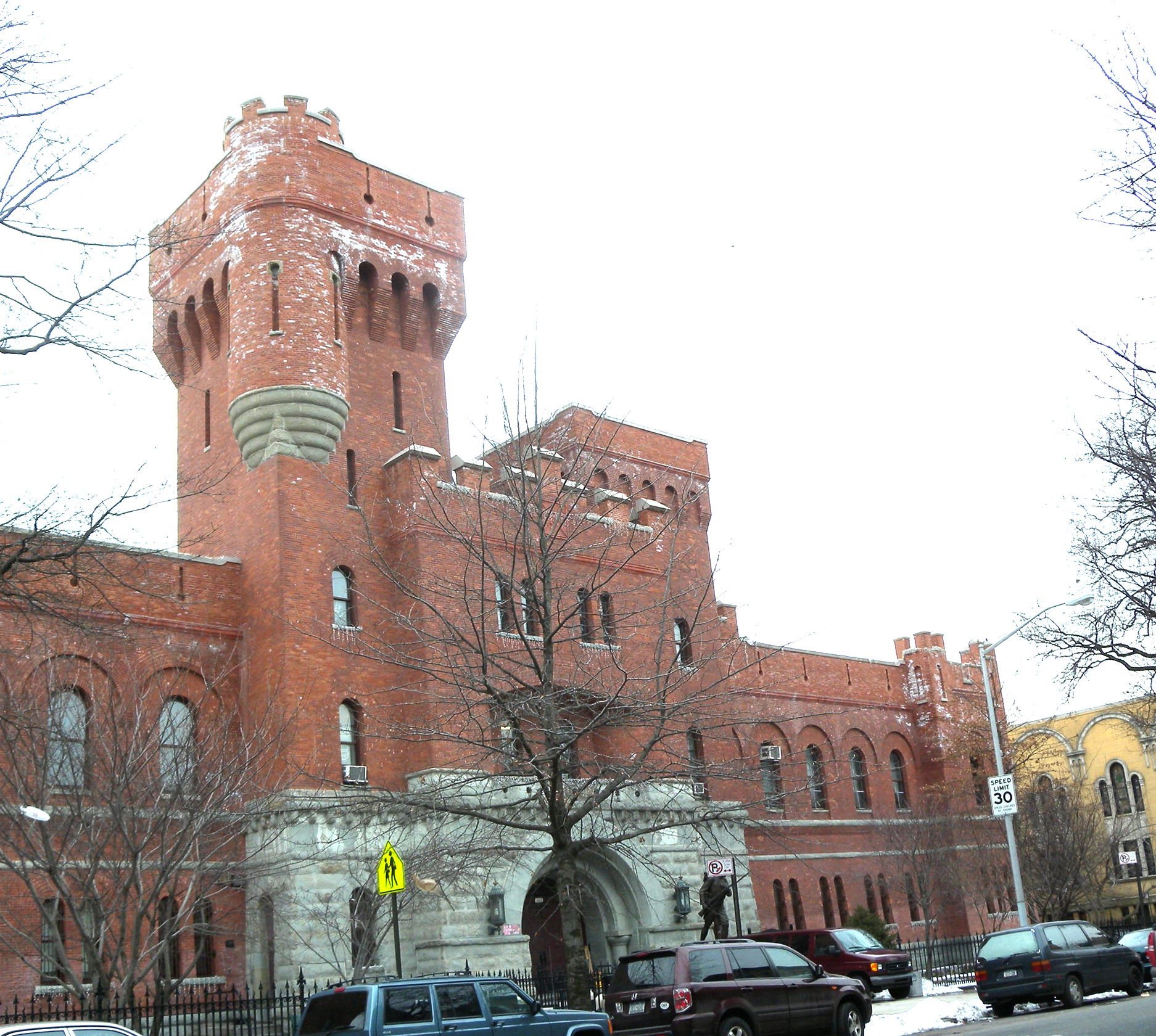 Looking north across 8th Avenue and 15th Street at 14th Regiment armory on a cloudy afternoon.